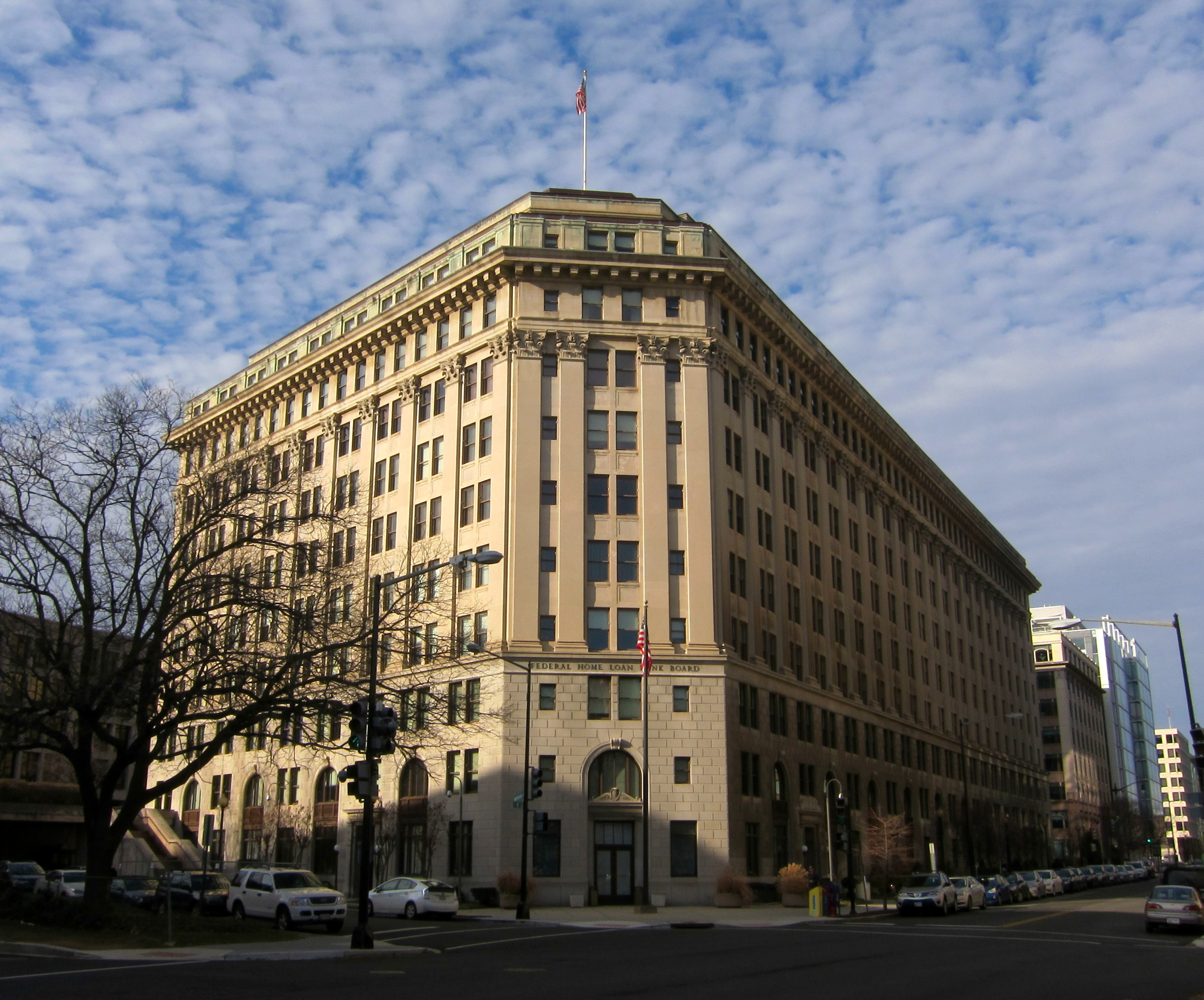 The Federal Home Loan Bank Board Building located at 320 1st Street NW in Washington, D.C. Completed in 1928, the Classical Revival building was designed by architect George E. Mathews. It was listed on the District of Columbia Inventory of Historic Sites and National Register of Historic Places in 2007. Previously the federal headquarters of the Home Owners' Loan Corporation (HOLC), it is currently occupied by the Central Office of the Federal Bureau of Prisons.